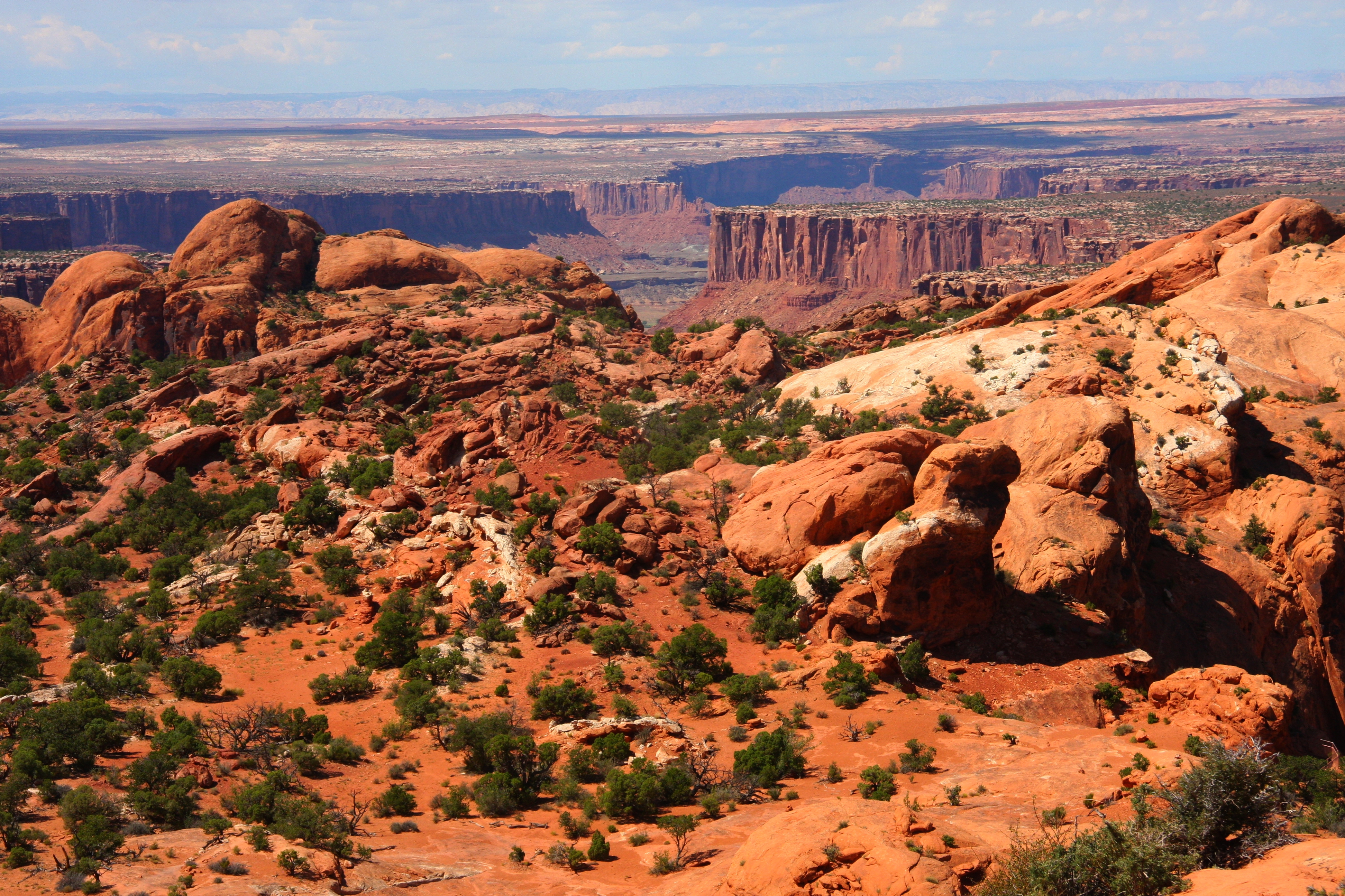 Canyon of Colorado River i Canyonlands NP